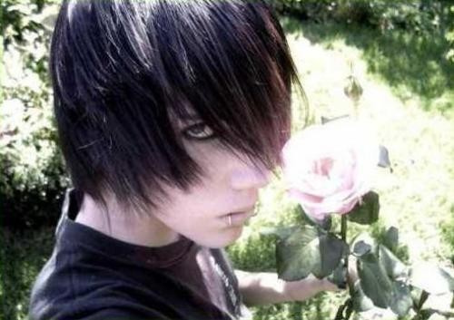 Male Scene kid circa 2008.